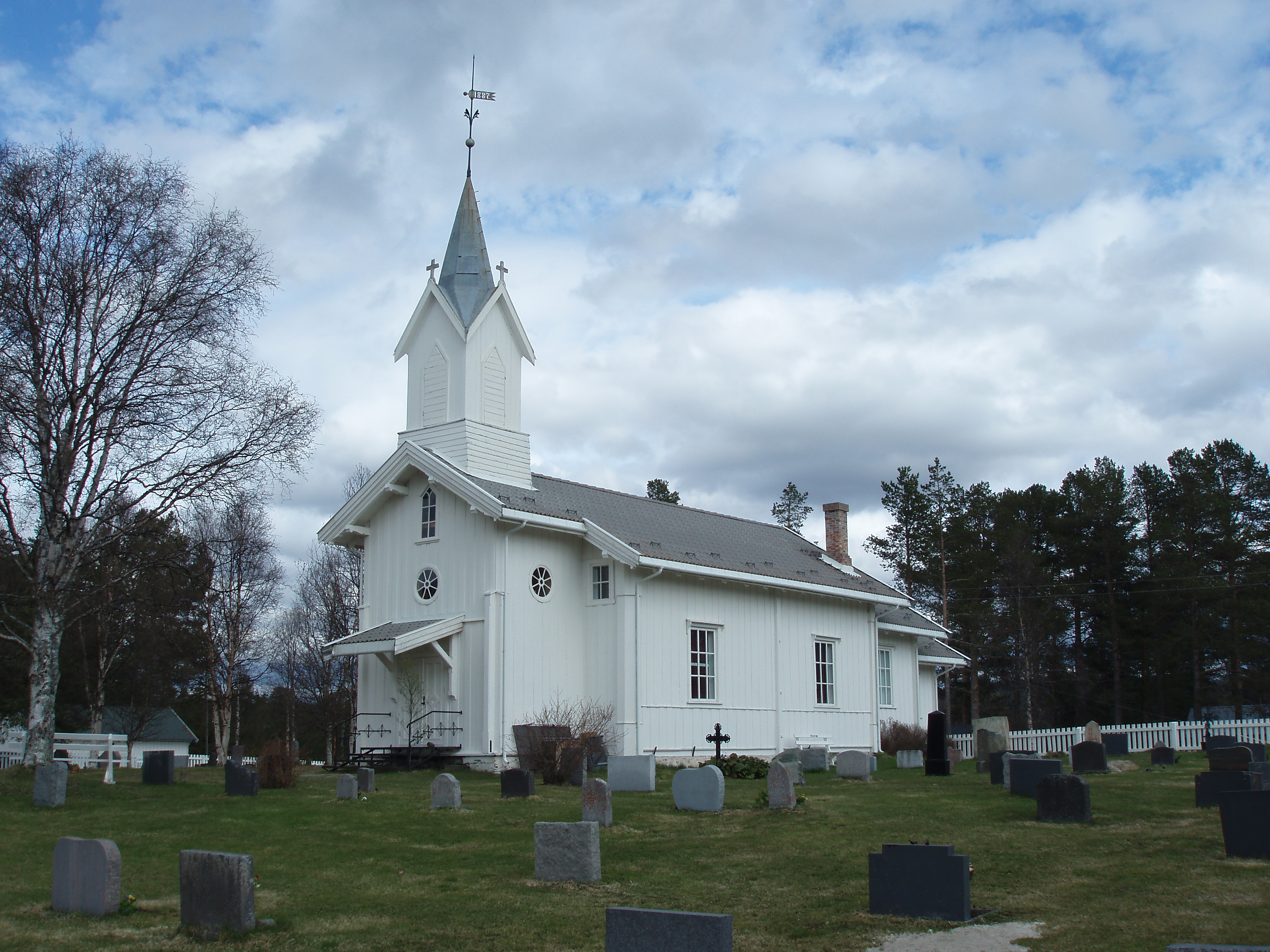 Drevsjø Church in Engerdal municipality in Hedmark county in Norway.